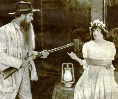 Still from the American drama film Under the Lash (1921) with Gloria Swanson, on page 38 of the January 1922 Screenland.